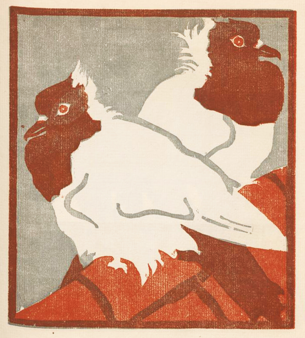 Doves (woodcut in two blocks) by the Austrian artist Hilde Exner.